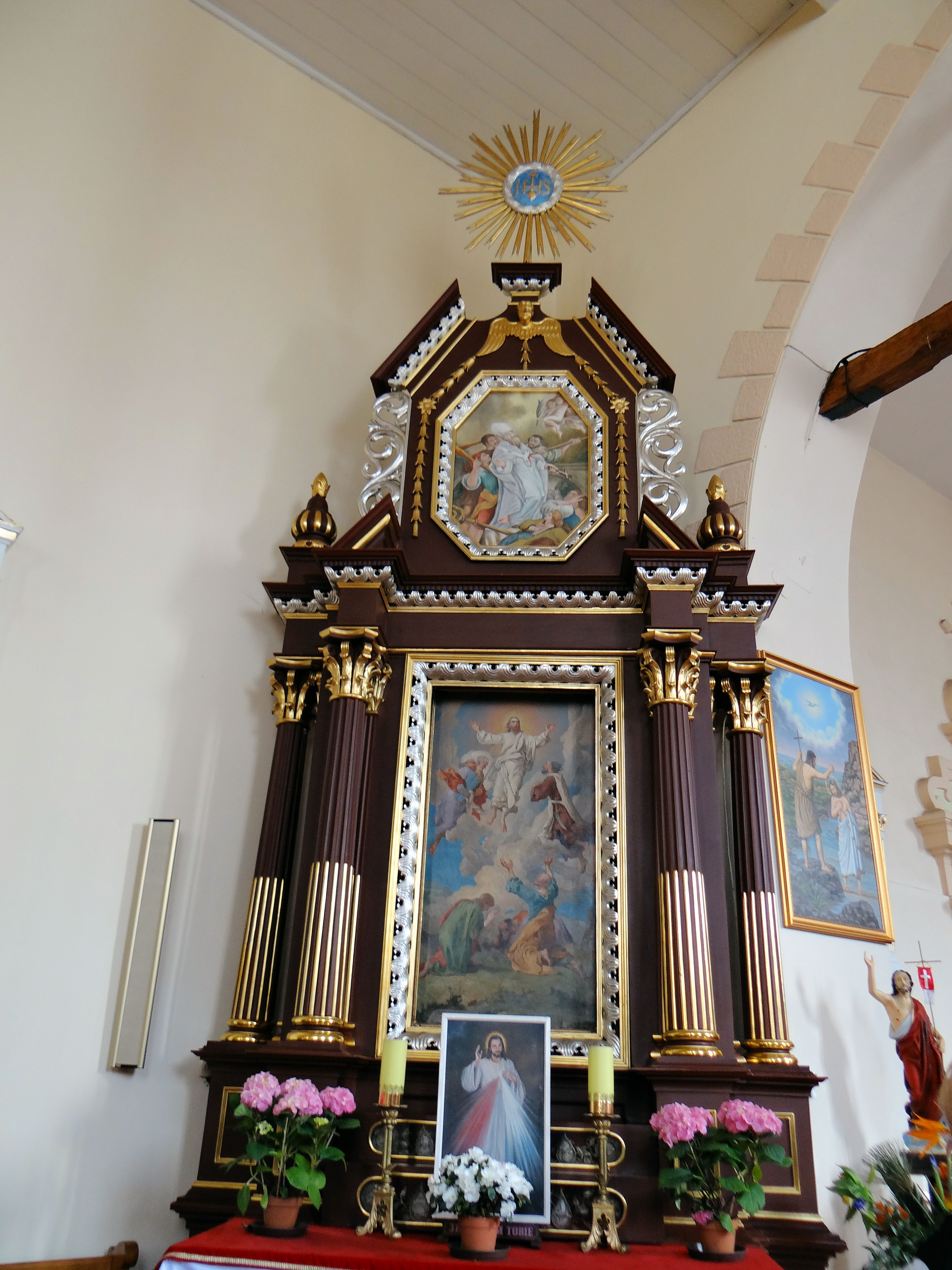 Altar of Saint John the Baptist church in Cegłów